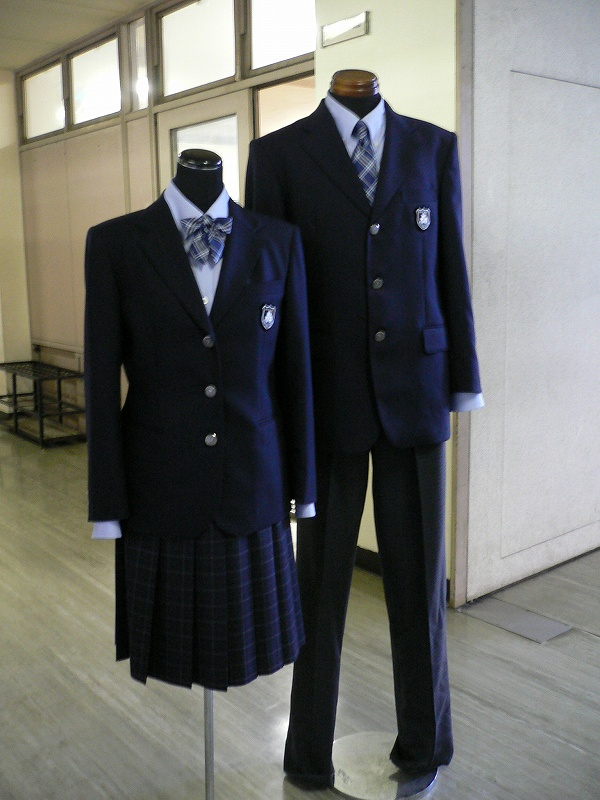 School uniforms of Izuo High School, Osaka, Japan since 2003. Light blue "Button-down" Shirt; "squares or crossed lines" trousers and Skirt; "Burberry style" Necktie and Ribbon.